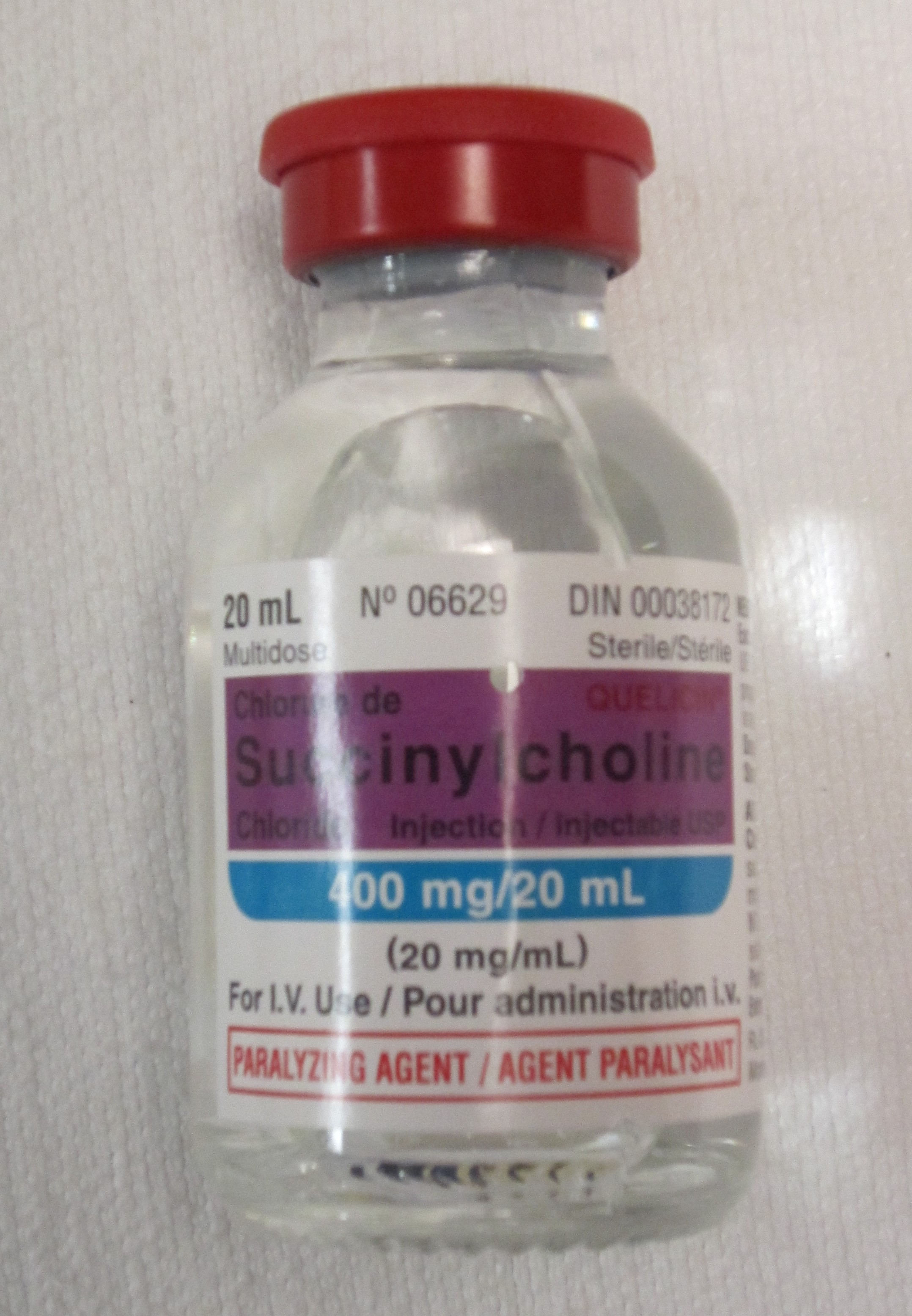 A vial of the paralytic agent suxamethonium chloride